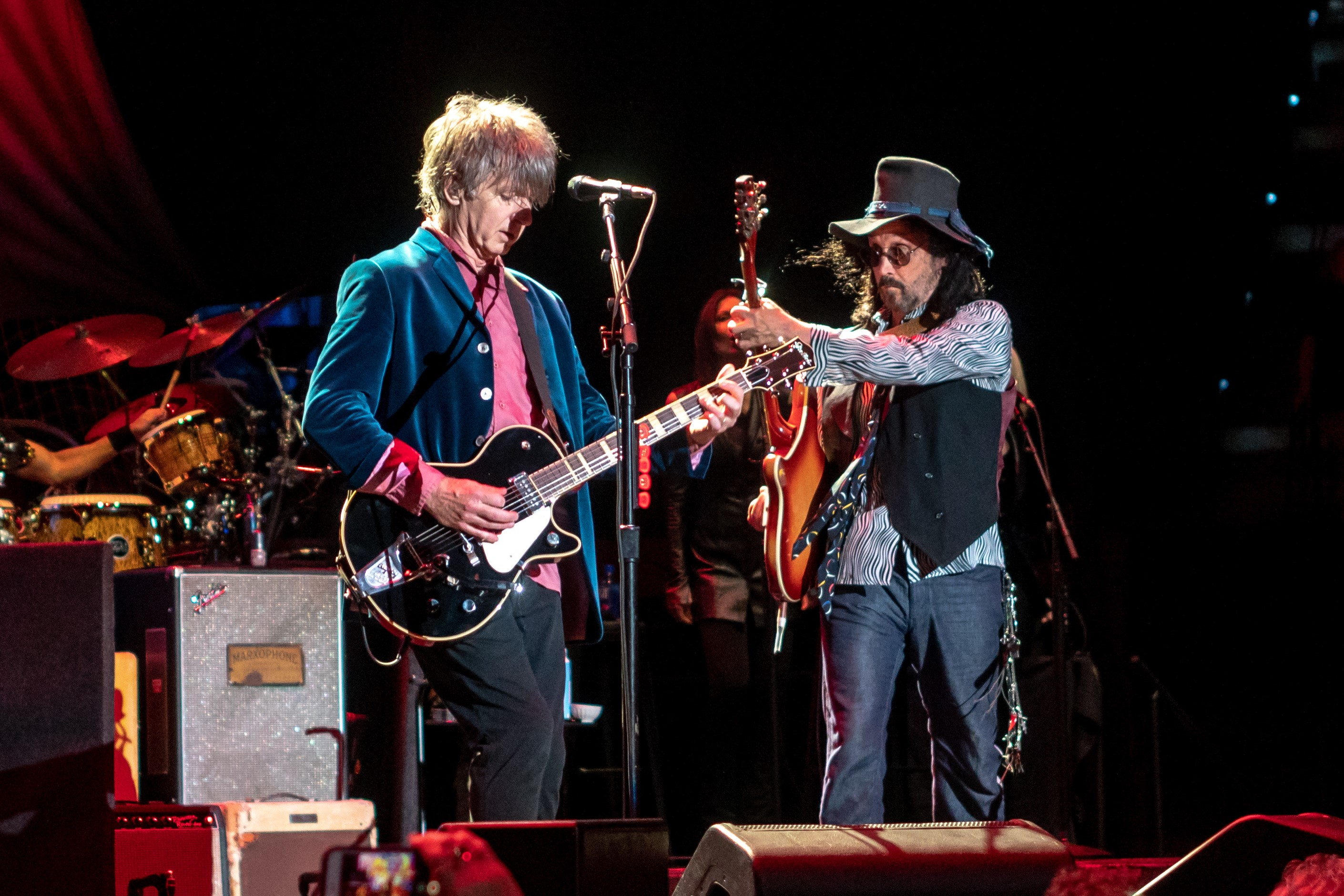 Fleetwood Mac - BOK Center Tulsa - Wednesday 3rd October 2018